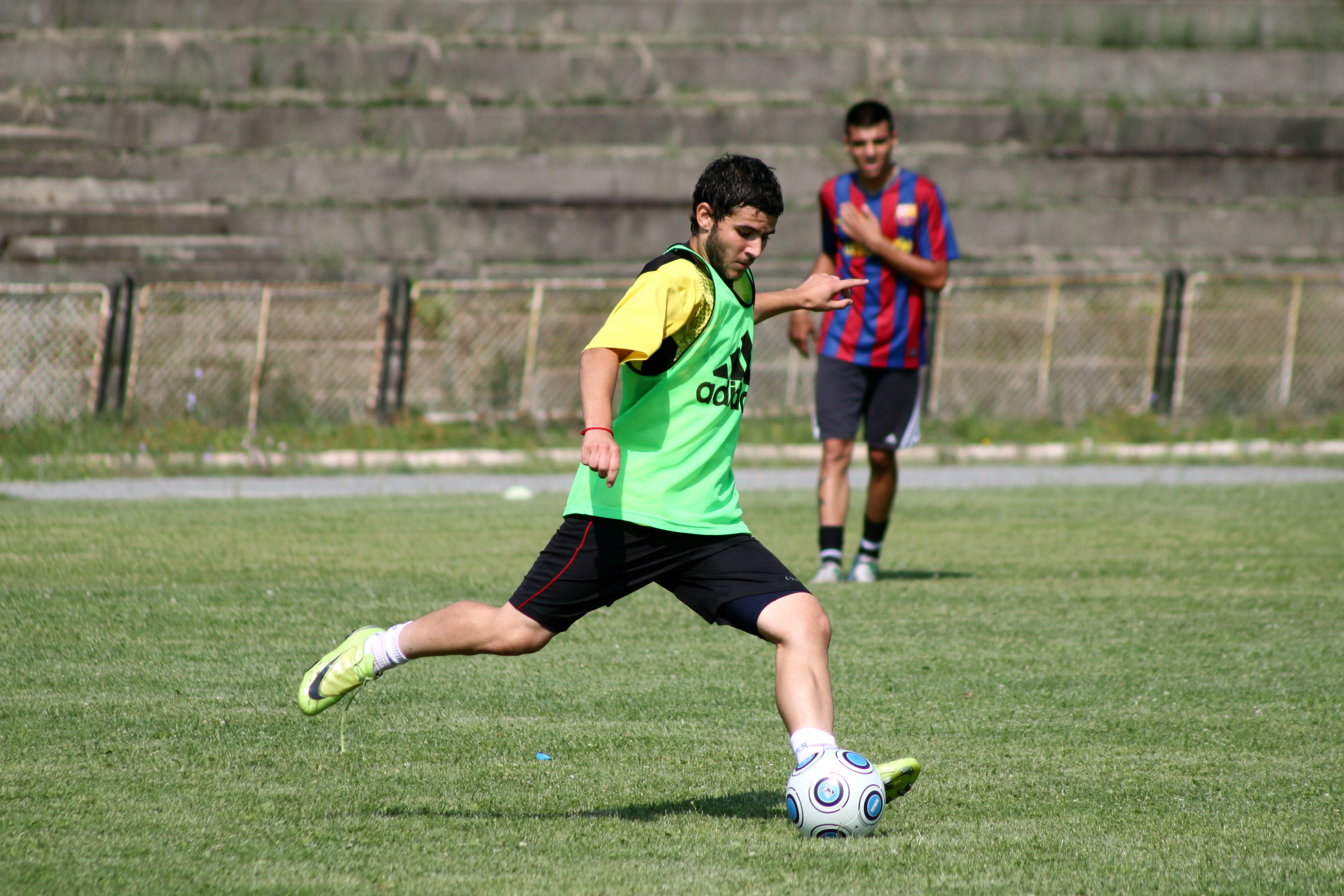 Christian Cochilov - Bulgarian soccer player